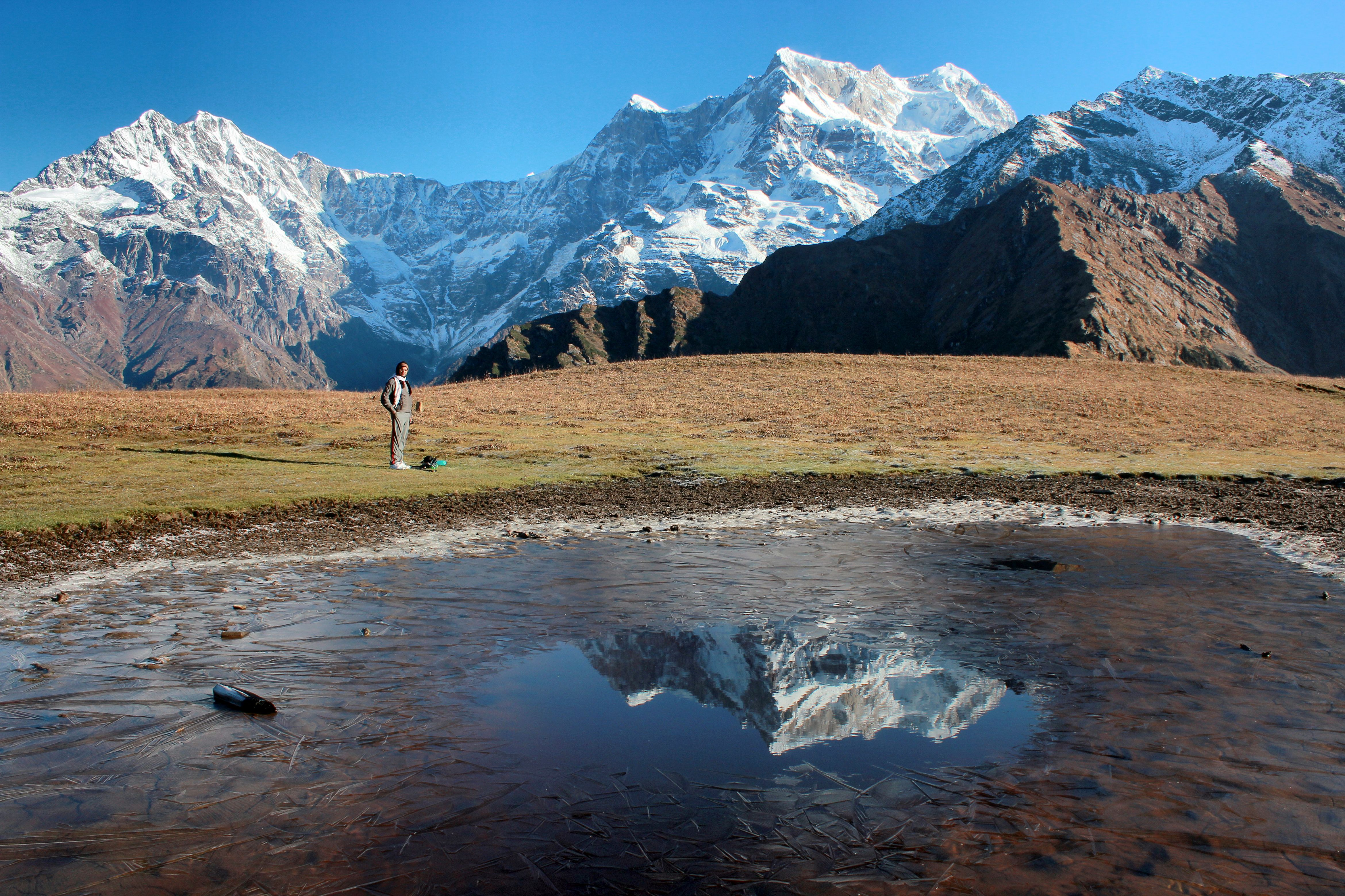 Mt Mandani and Chaukhamba with reflection on semi frozen lake at Boodha Madhyamaheshwar (3500m) Chaukamba I 7,138 m (23,419 ft) Chaukamba II 7,070 m (23,196 ft) Chaukamba III 6,995 m (22,949 ft) Chaukamba IV 6,854 m (22,487 ft)